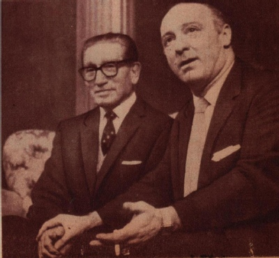 Argentine lyricist Gabino Coria Peñaloza (1881 - 1975) and interviewer Julio Jorge Nelson (1913 — 1976).